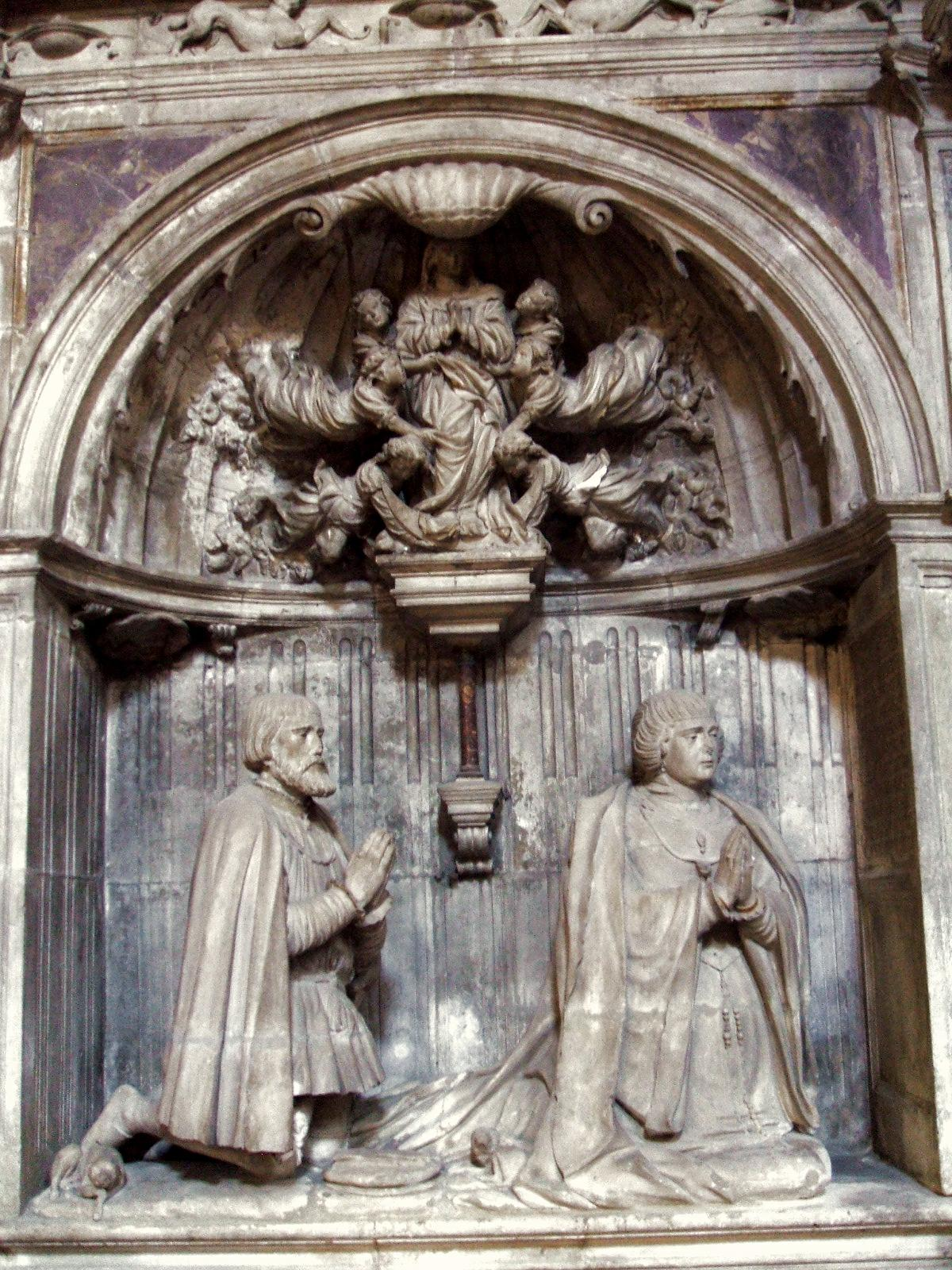 Monumento funerario del artista rejero Cristóbal de Andino y su esposa Catalina de Frías en la Iglesia de San Cosme y San Damián, en Burgos (Castilla y León, España)